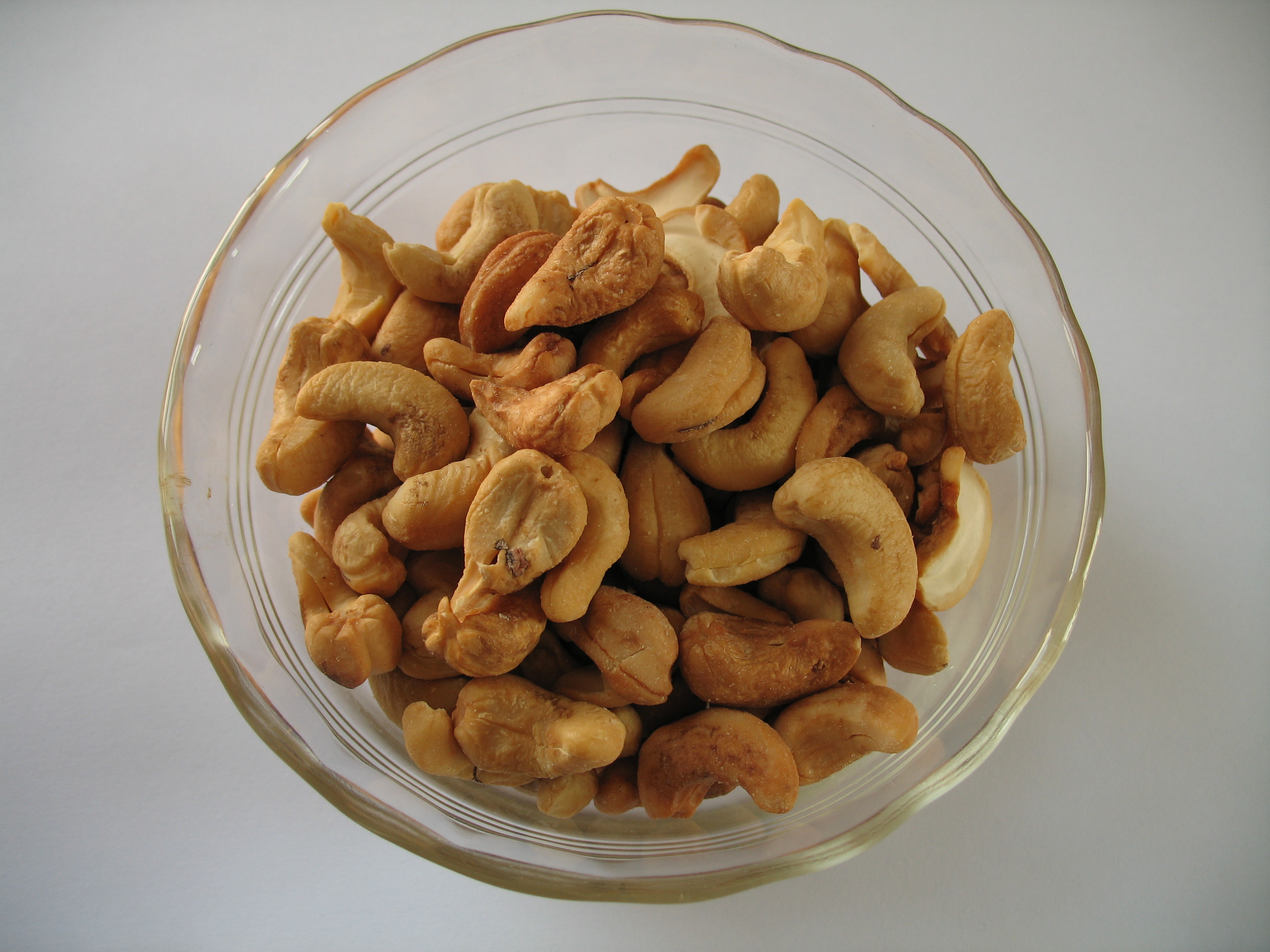 Cashew nuts, roasted and salted.